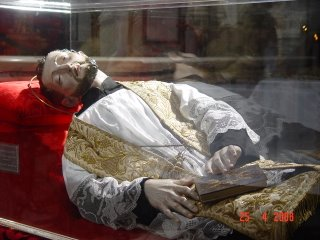 St. Francis Caracciolo's statue at Monteverginella (Naples), over his remains. Medium 17th cent.